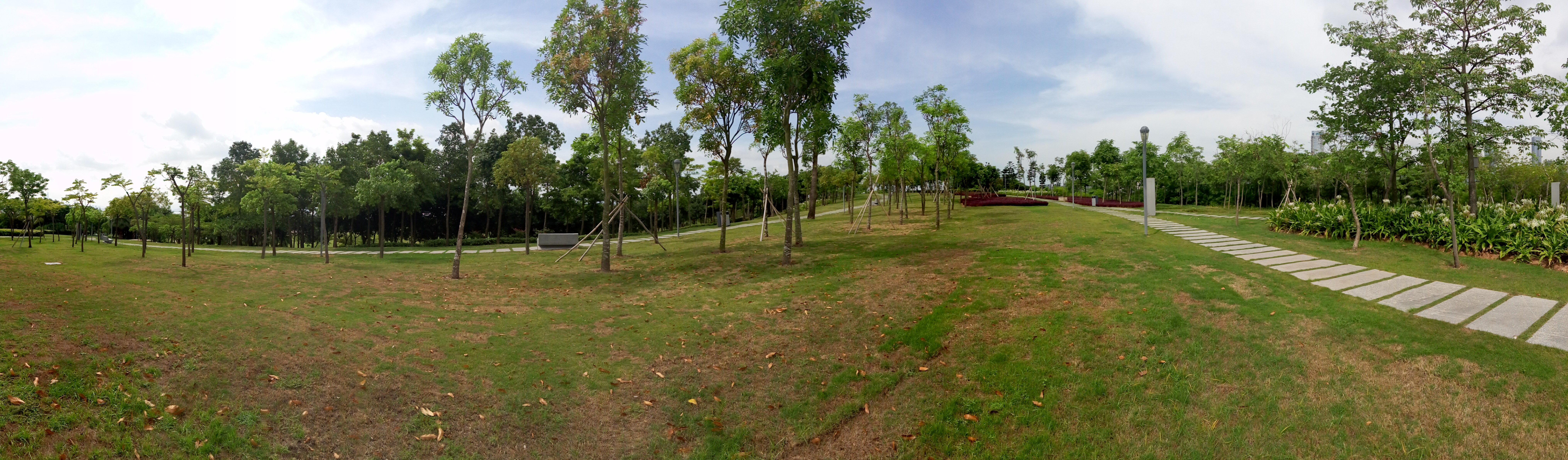 An urban park featuring a promenade along the deep bay